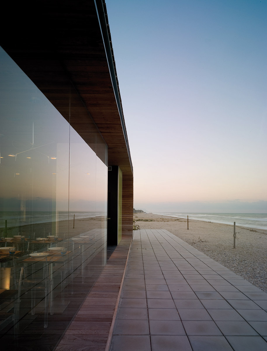 Chalet Touch by Enzo Eusebi